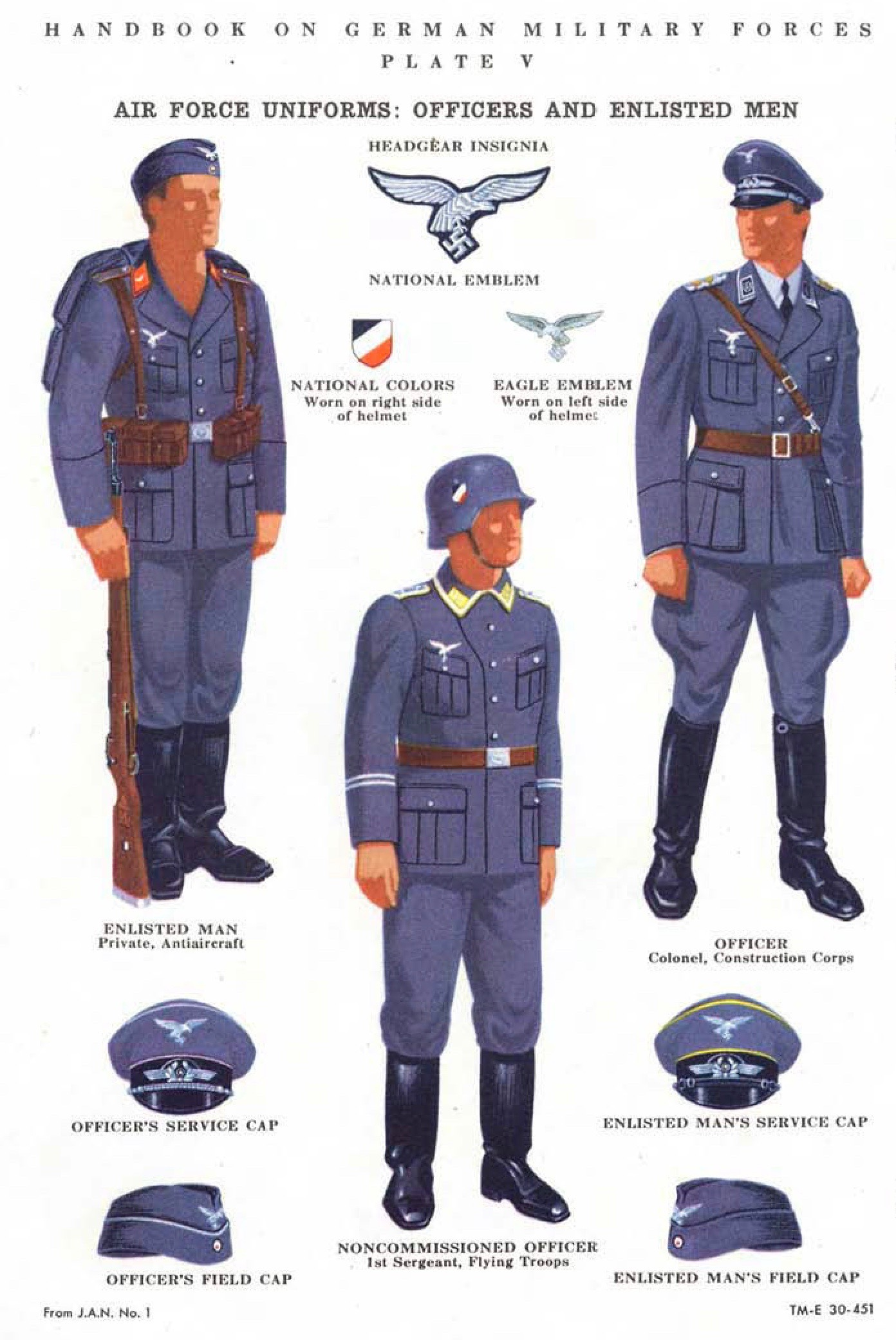 Air force uniforms officers and enlisted men (Uniforms of the German Luftwaffe c. 1943)Colour plate V from "Handbook On German Military Forces" (TM-E 30-451 1 September 1943), a manual published by the the Military Intelligence Division of the United States War Departement, restricted during World War Two, declassified since then. It shows the insignia, uniforms, etc., of the Third Reich Wehrmacht in wartime Germany.No known copyright restrictions. Legal disclaimer This image shows (or resembles) a symbol that was used by the National Socialist (NSDAP/Nazi) government of Germany or an organization closely associated to it, or another party which has been banned by the Federal Constitutional Court of Germany. The use of insignia of organizations that have been banned in Germany (like the Nazi swastika or the arrow cross) are also illegal in Austria, Hungary, Poland, Czech Republic, France, Brazil, Israel, Ukraine, Russia and other countries, depending on context. In Germany, the applicable law is paragraph 86a of the criminal code (StGB), in Poland – Art. 256 of the criminal code (Dz.U. 1997 nr 88 poz. 553).